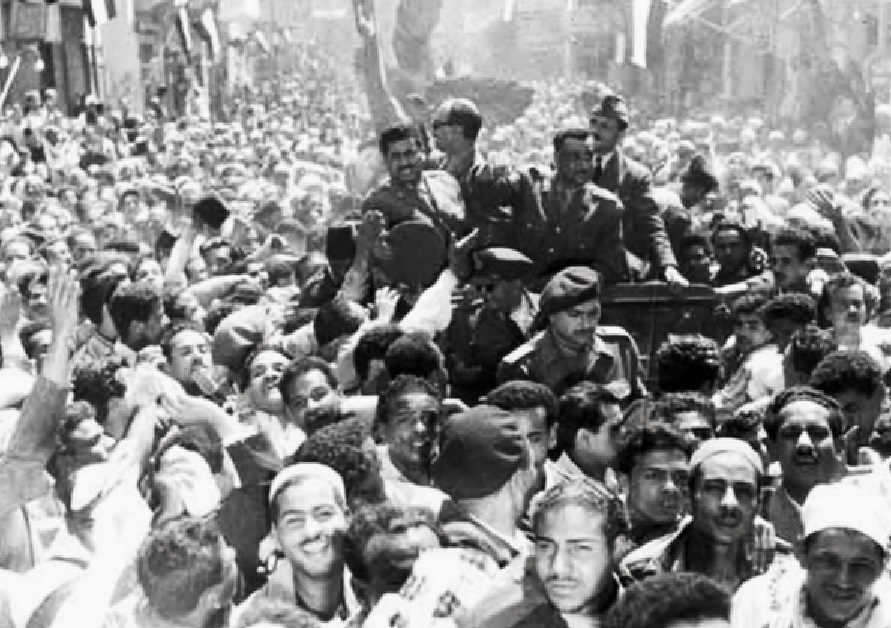 The Free Officers being welcomed by the crowds in Cairo in the months following the 1952 Revolution. The four men standing in the car are, from left to right: Youssef Seddik, Salah Salem, Gamal Abdel Nasser and Abdel Latif Boghdadi